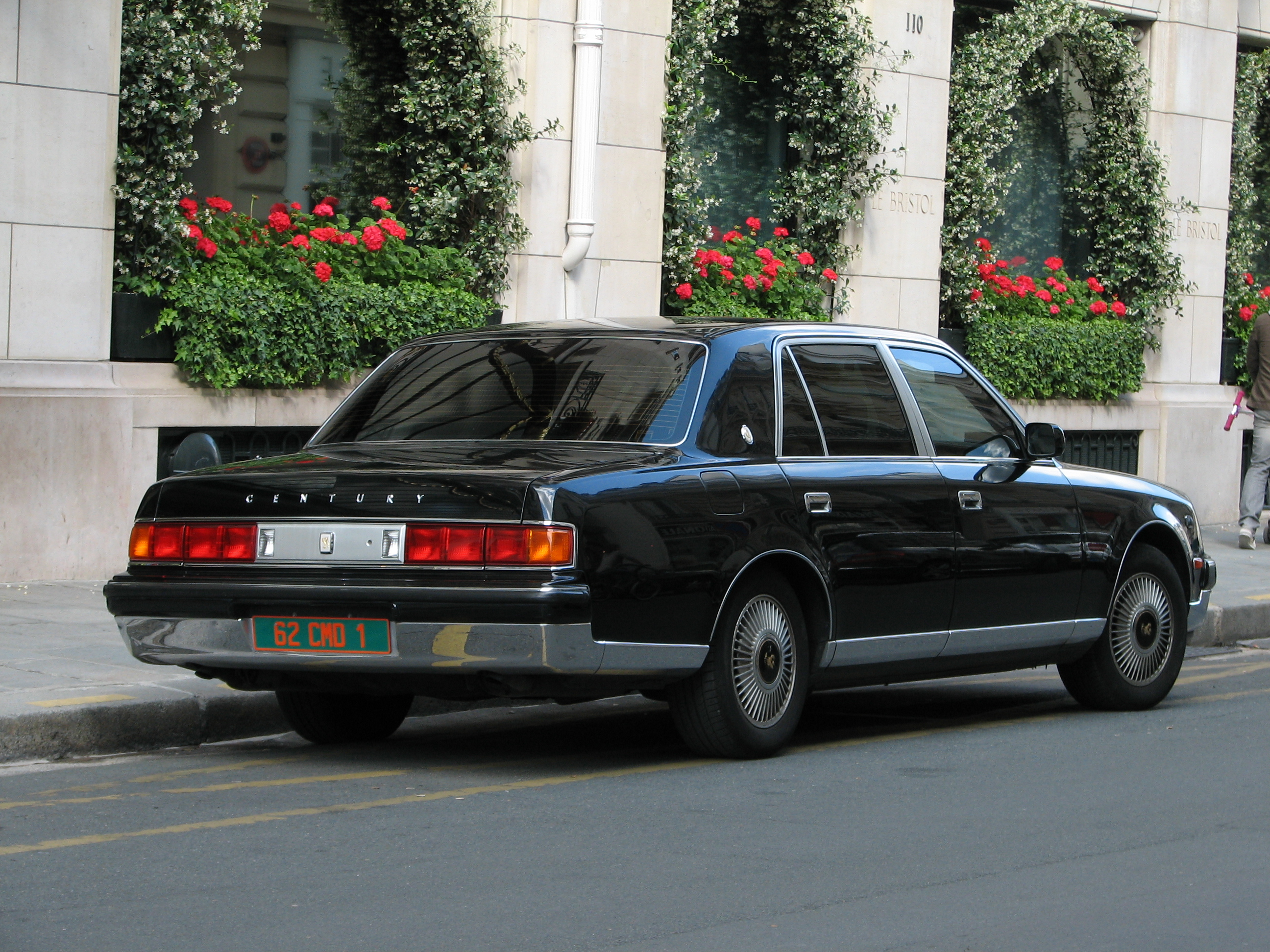 Toyota Century parked in front of Le Bristol hotel, rue du Faubourg Saint-Honoré. It has diplomatic plates so it probably belongs to the Japanese embassy located further up the street. CMD on the licence plate = Chef Mission Diplomatique (Ambassador).